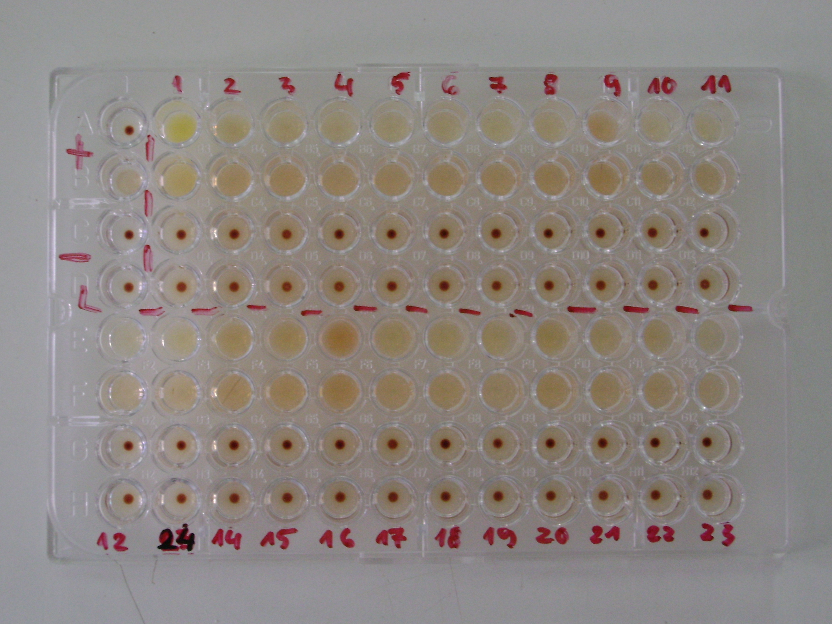 This is the image of TPHA test on microplate wells. Left upper corner is the positive control (one with erythrocyte aggregate and one with agglutination), below is the negative control (two erythrocyte aggregates). All of the tested samples were negative, with caracteristic erythrocyte aggregates. The wells with no erythrocyte aggregates were used for diluting the serum.